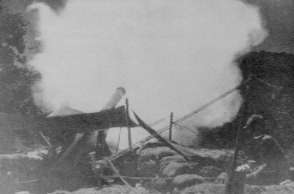 Japanese artillery fires at Corregidor.